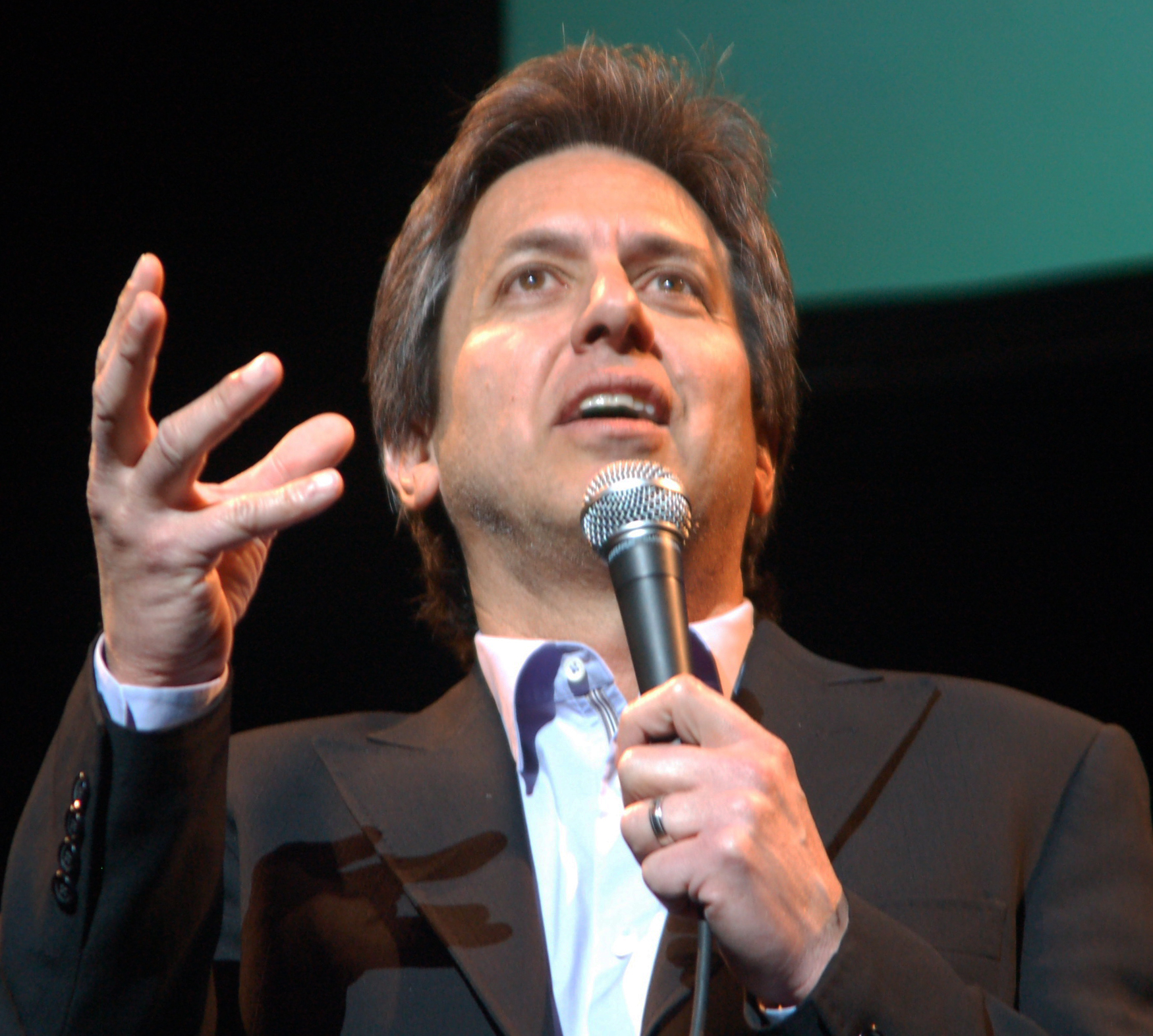 Ray Romano at the Night of Comedy 9 benefit to support the Children Affected by AIDS Foundation (CAAF) in Beverly Hills, California.